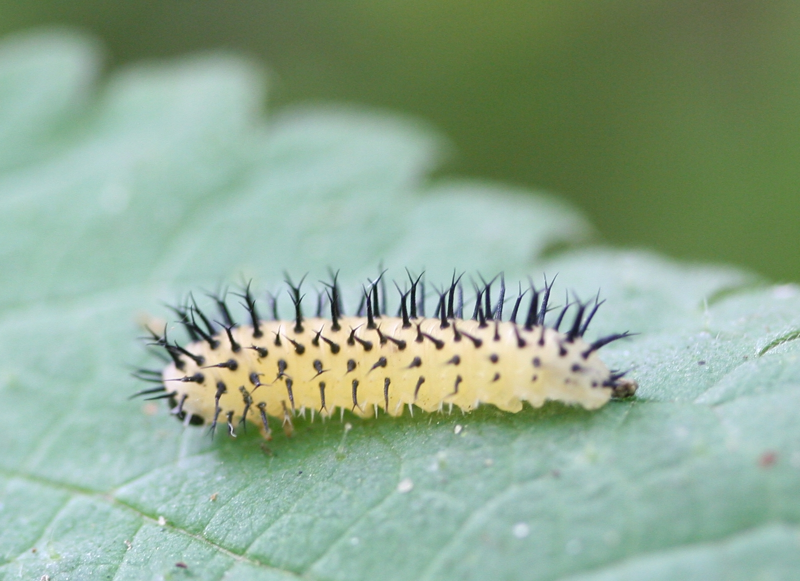 Periclista lineolata 3 June 2006 IJmuiden, the Netherlands